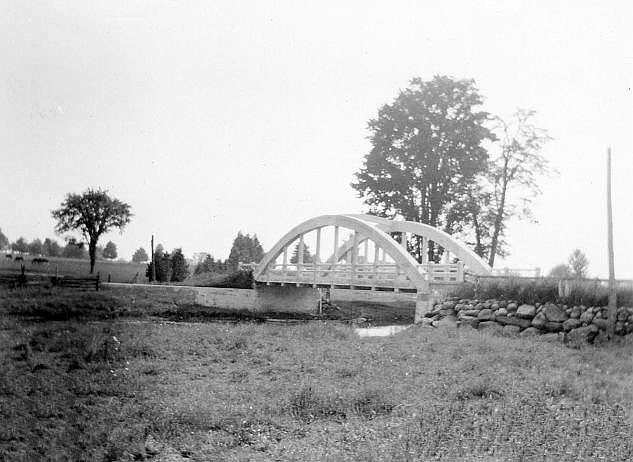 Bridge over Irvine River at Living Springs, Ontario.